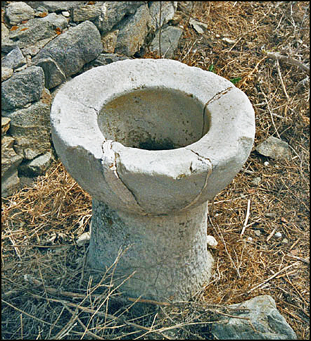 Latrines on Délos's island.